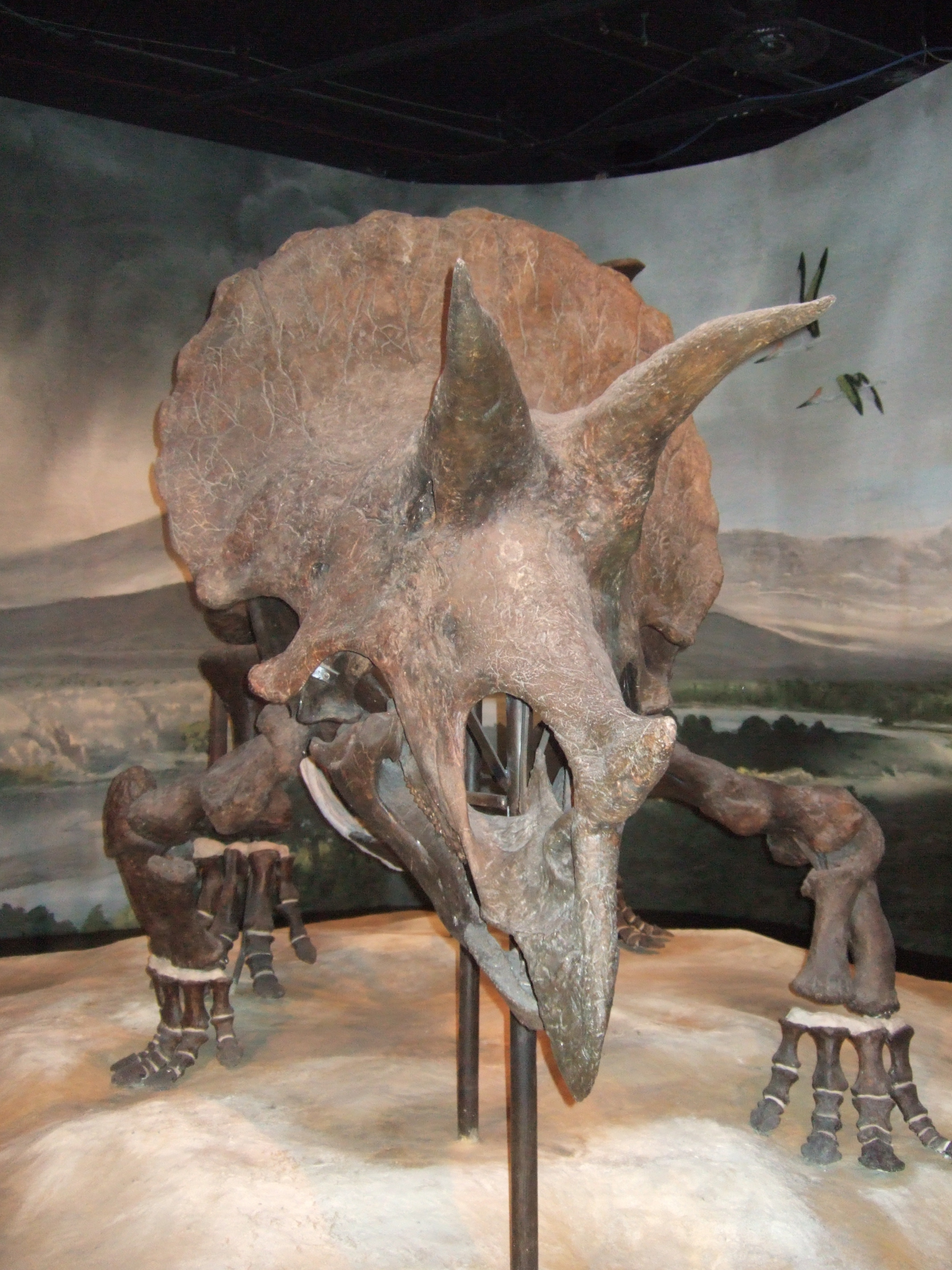 Triceratops at Science Museum of minnesota